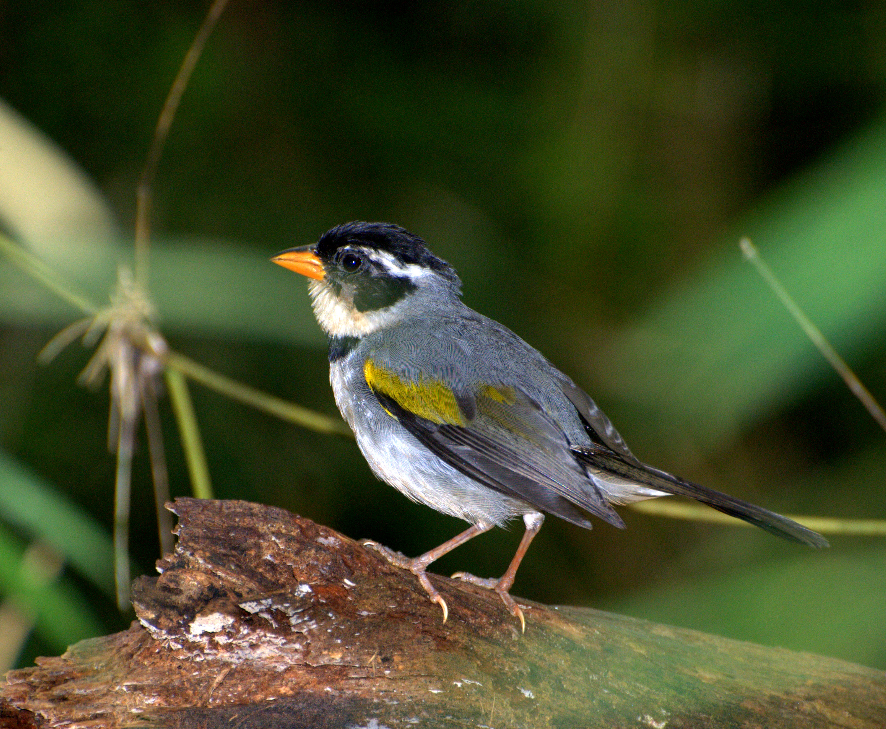 A Saffron-billed Sparrow in Piraju, São Paulo, Brazil.